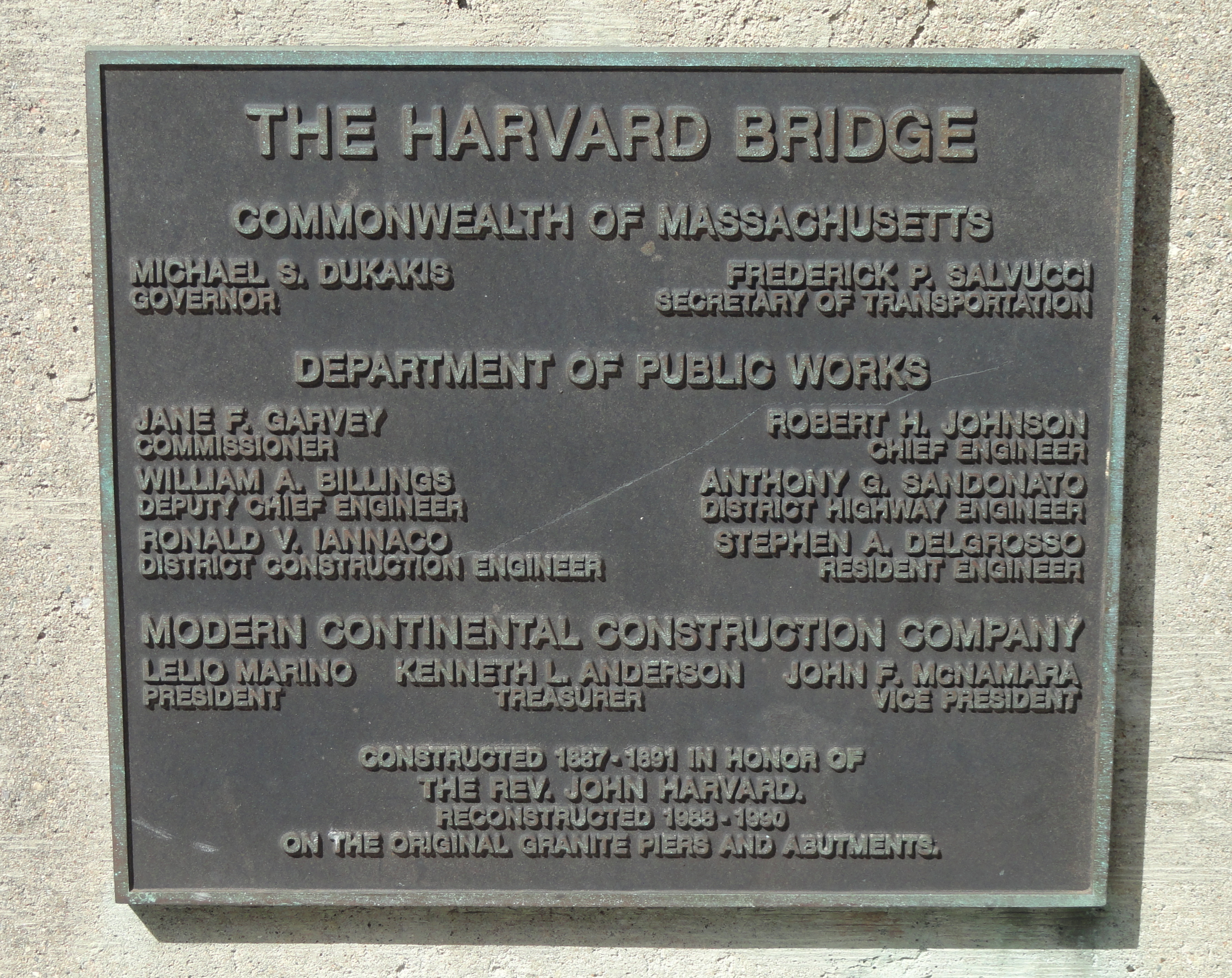 Memorial plaque for the reconstruction of Harvard Bridge in Boston, Massachusetts, USA.